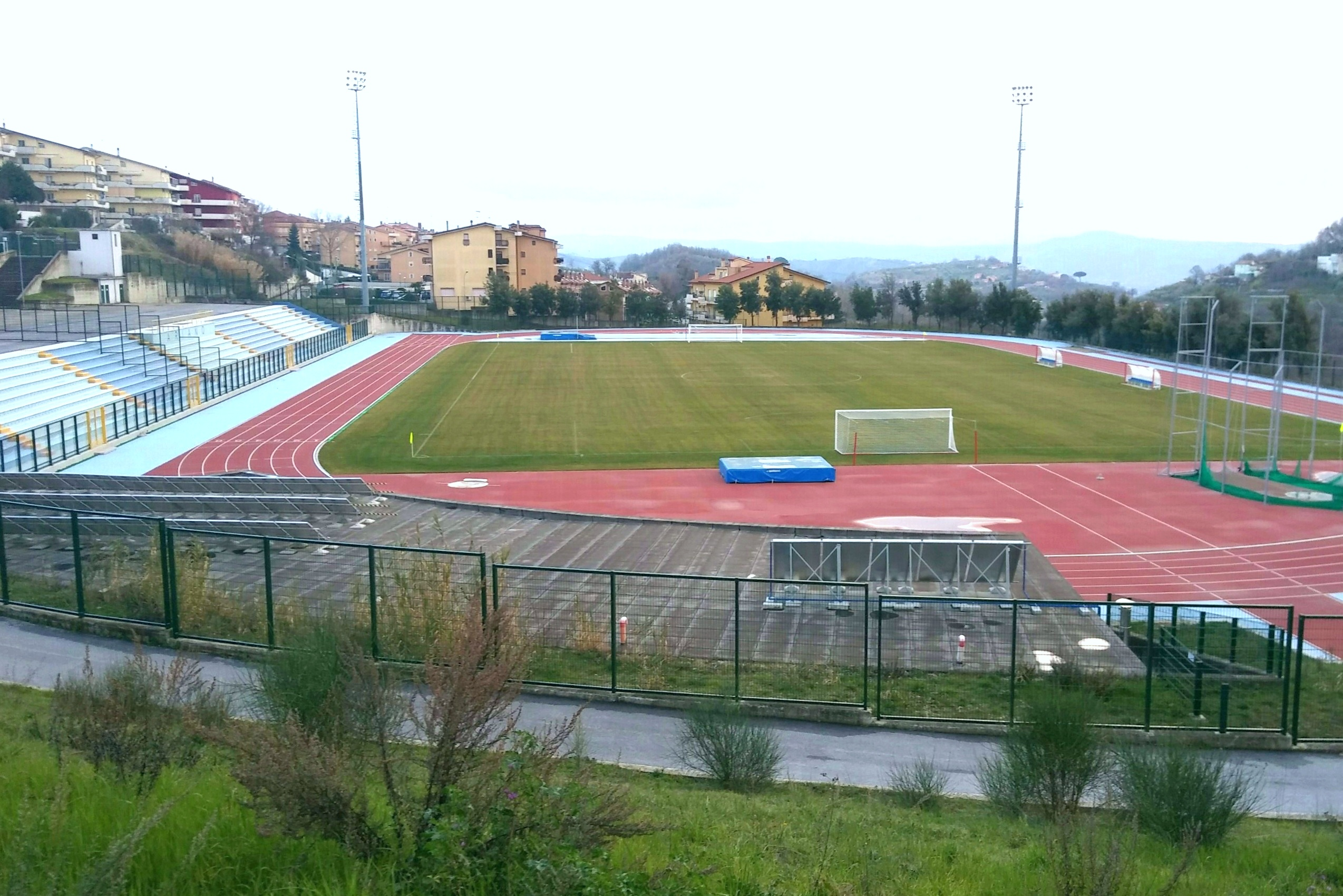 Arena-stadium in Ariano Irpino, Italy